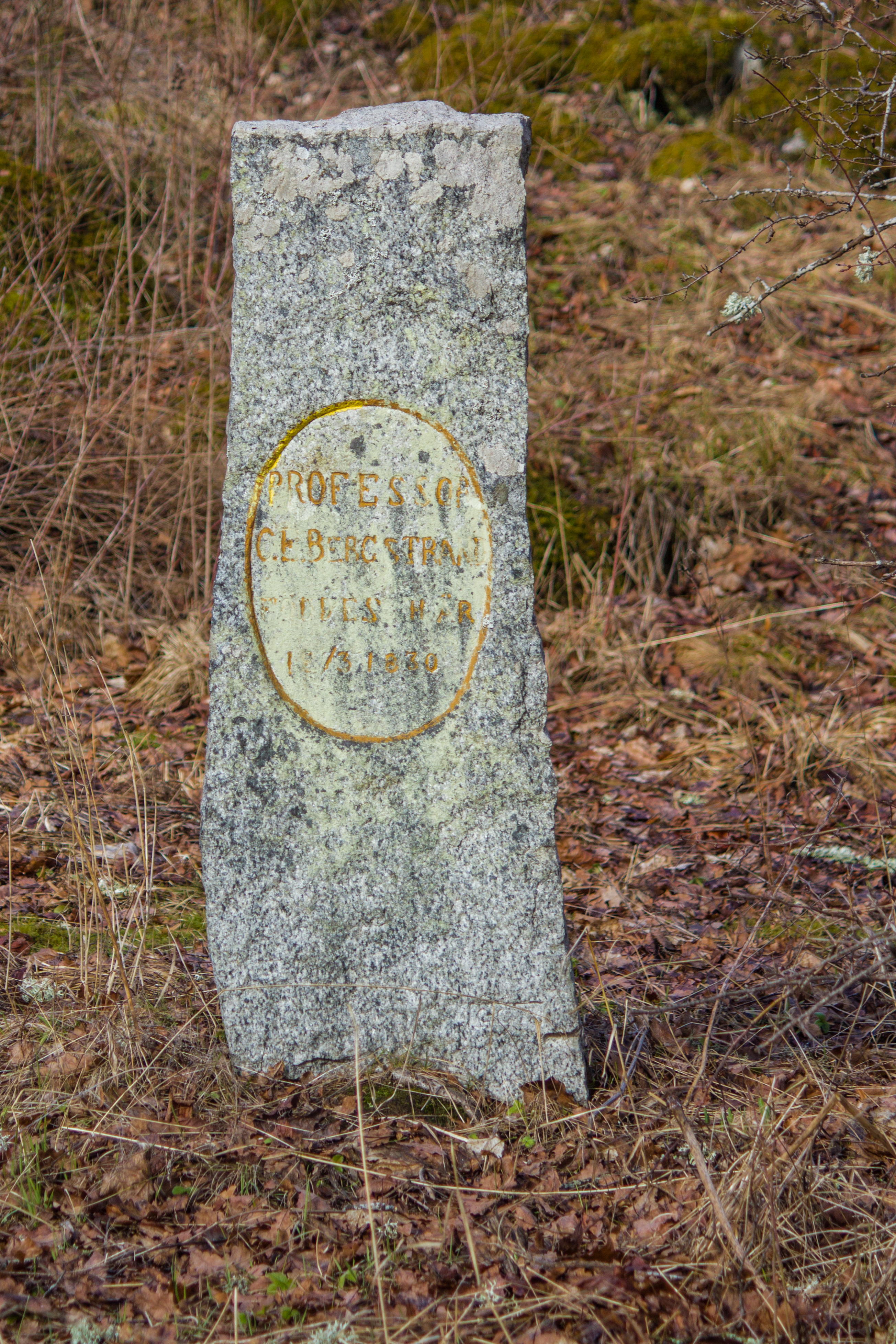 Memorial of Carl Erik Bergstrand, Kila Parish, Sala Municipality, Sweden.